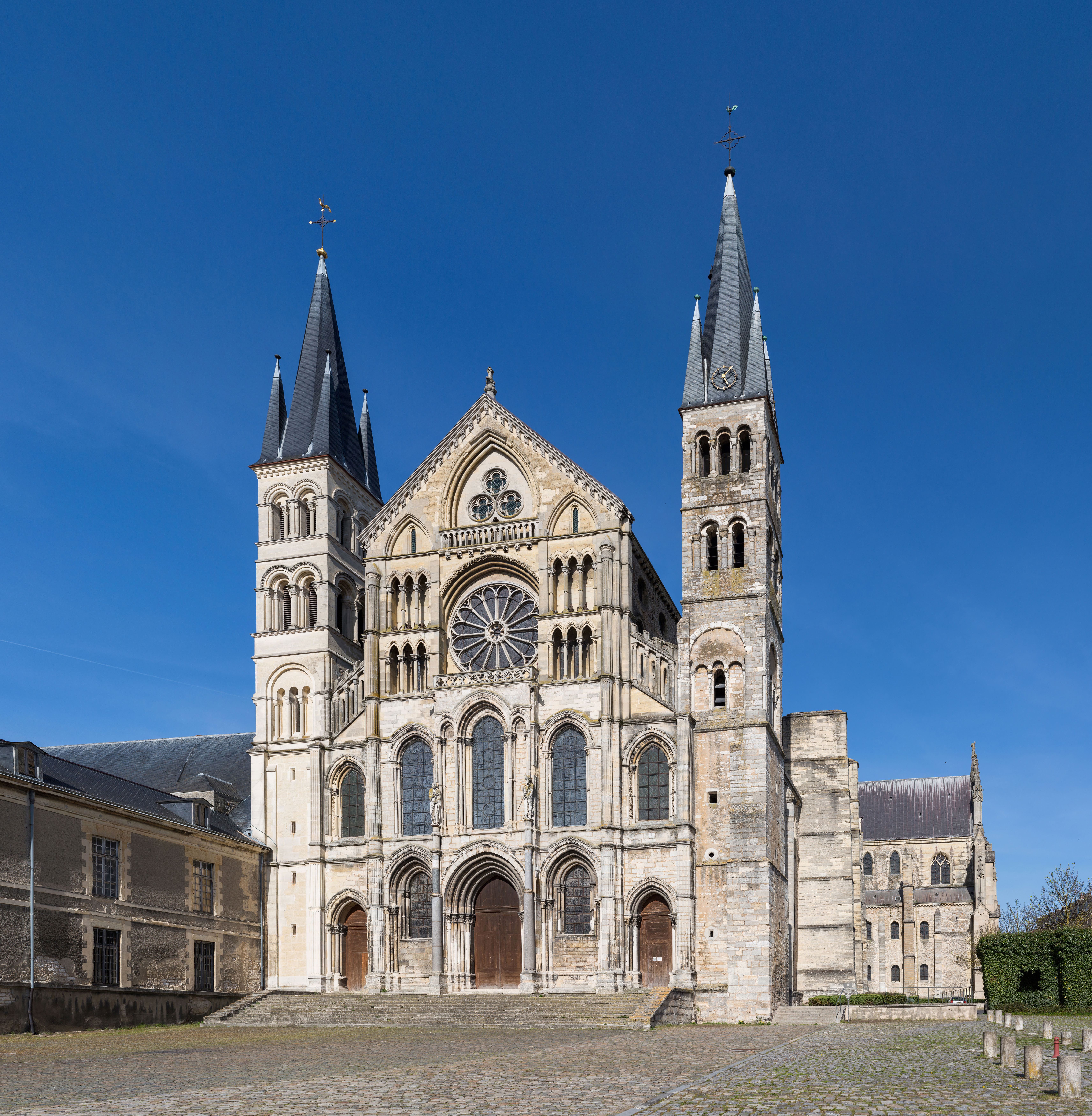 The facade of Basilique Saint-Remi de Reims, France.